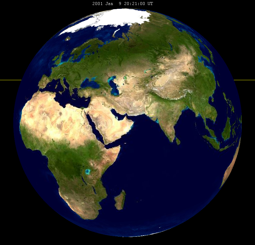 January_2001_lunar_eclipse view of earth The orientation of the earth as viewed from the center of the moon during greatest eclipse. thumb